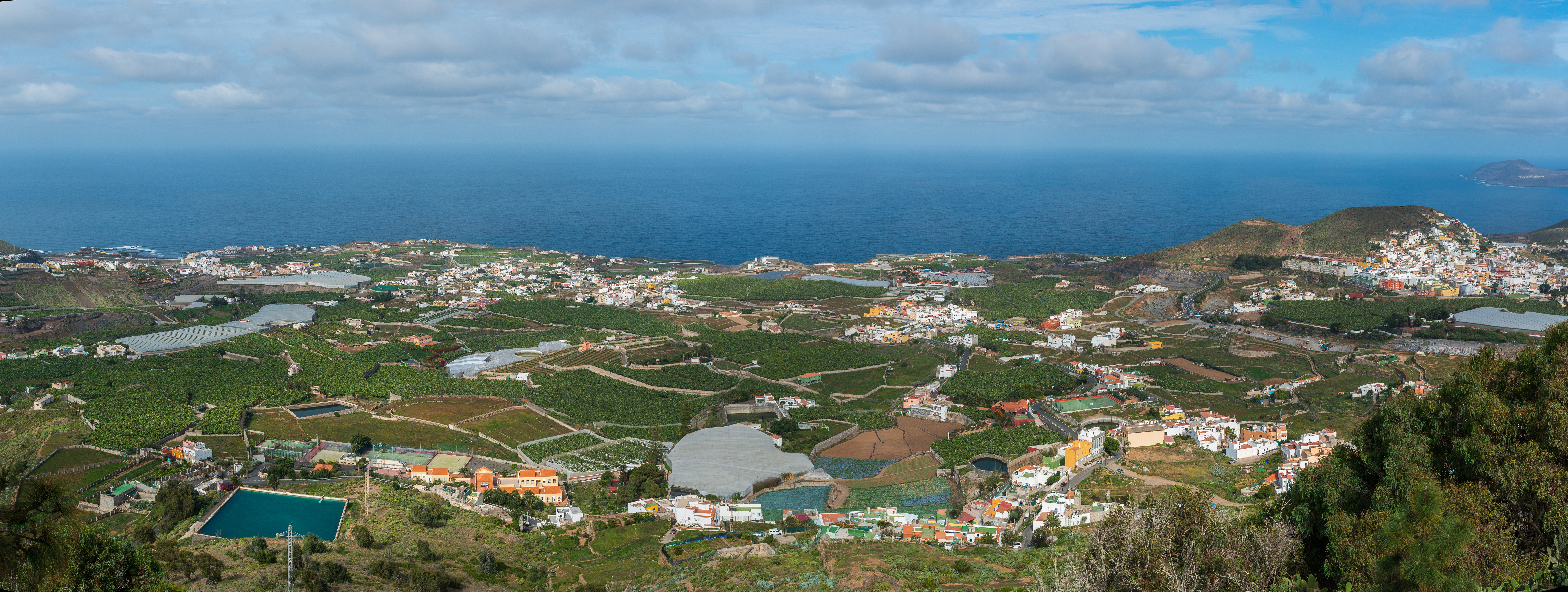 Arucas Gran Canaria January 2016